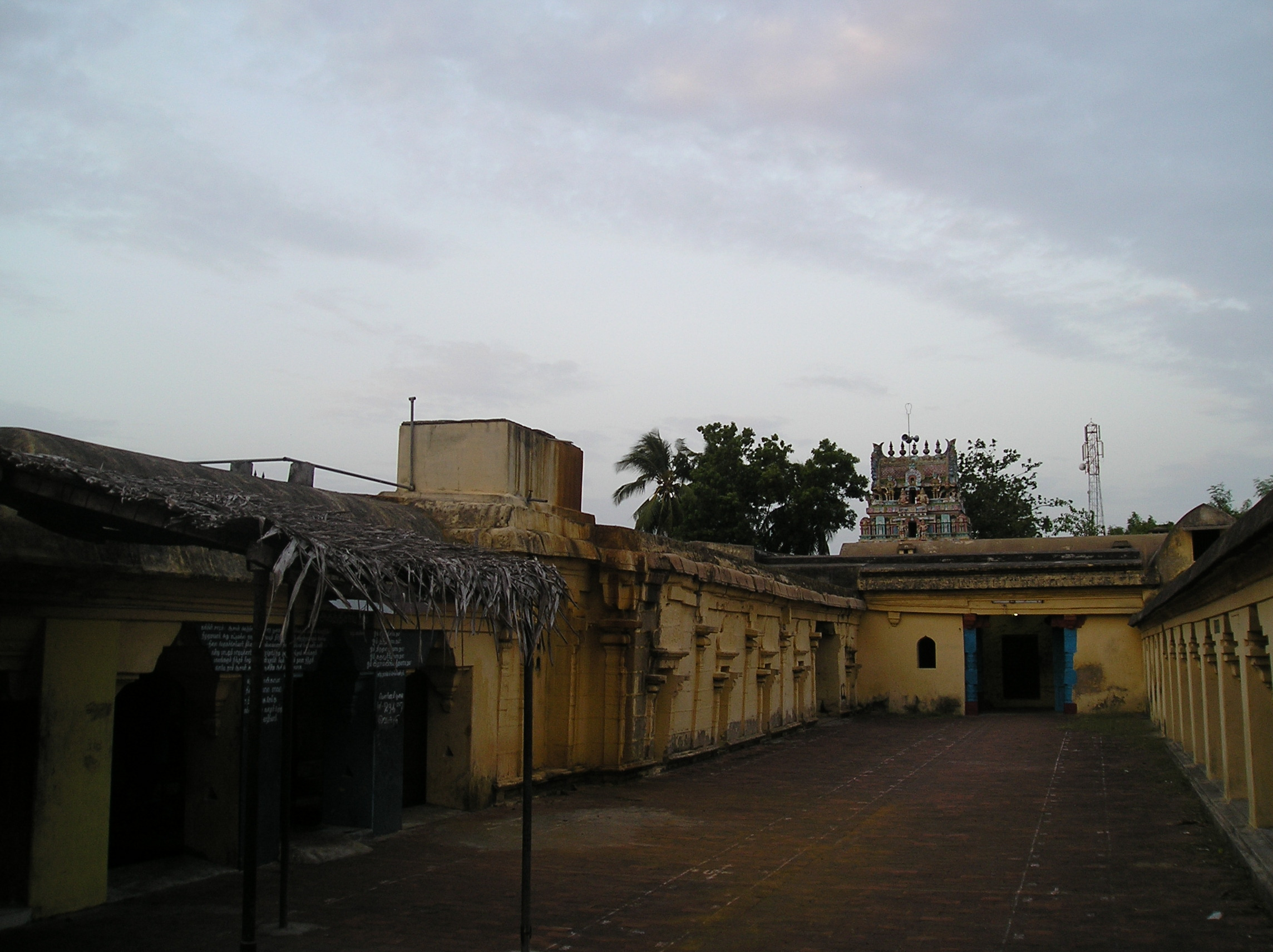 Pictures of Tirukoodalur Jagath Rakshaka Perumal temple